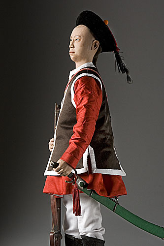 Historical Mixed Media Figure of a Chinese Banner Man produced by artist/historian George S. Stuart and photographed by Peter d'Aprix. This image, from the George S. Stuart Gallery of Historical Figures® archive ( is provided for all uses with appropriate attribution. Any derivatives must be shared in the same manner. Contributor mharrsch is webmaster for the gallery site.